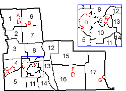 Map Key: 1-Town of Lisle 2-Town of Nanticoke 3-Town of Maine 4-Town of Union 5-Town of Vestal 6-Town of Triangle 7-Town of Barker 8-Town of Chenango 9-Town of Dickinson 10-City of Binghamton 11-Town of Binghamton 12-Town of Fenton 13-Town of Kirkwood 14-Town of Conklin 15-Town of Colesville 16-Town of Windsor 17-Town of Sanford A-Village of Lisle B-Village of Whitney Point C-Village of Endicott D-Village of Johnson City E-Village of Port Dickinson F-Village of Windsor G-Village of Deposit